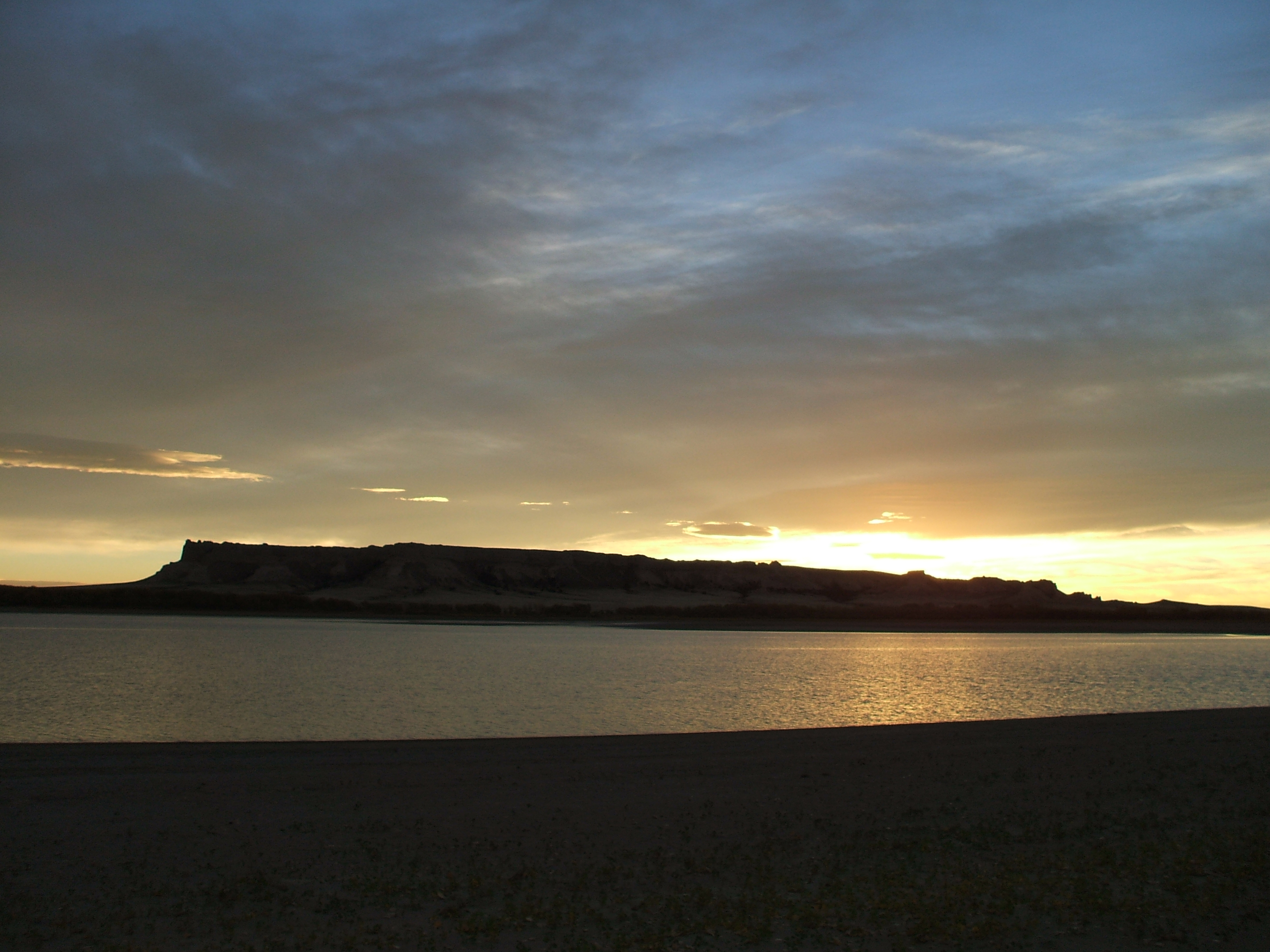 Looking east at morning twilight beyond Hawk Springs Reservoir, in Goshen County, Wyoming.